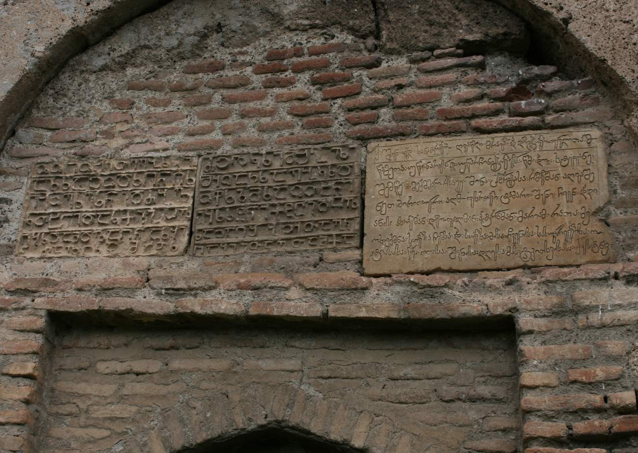 Urbnisi monastery. Inscription